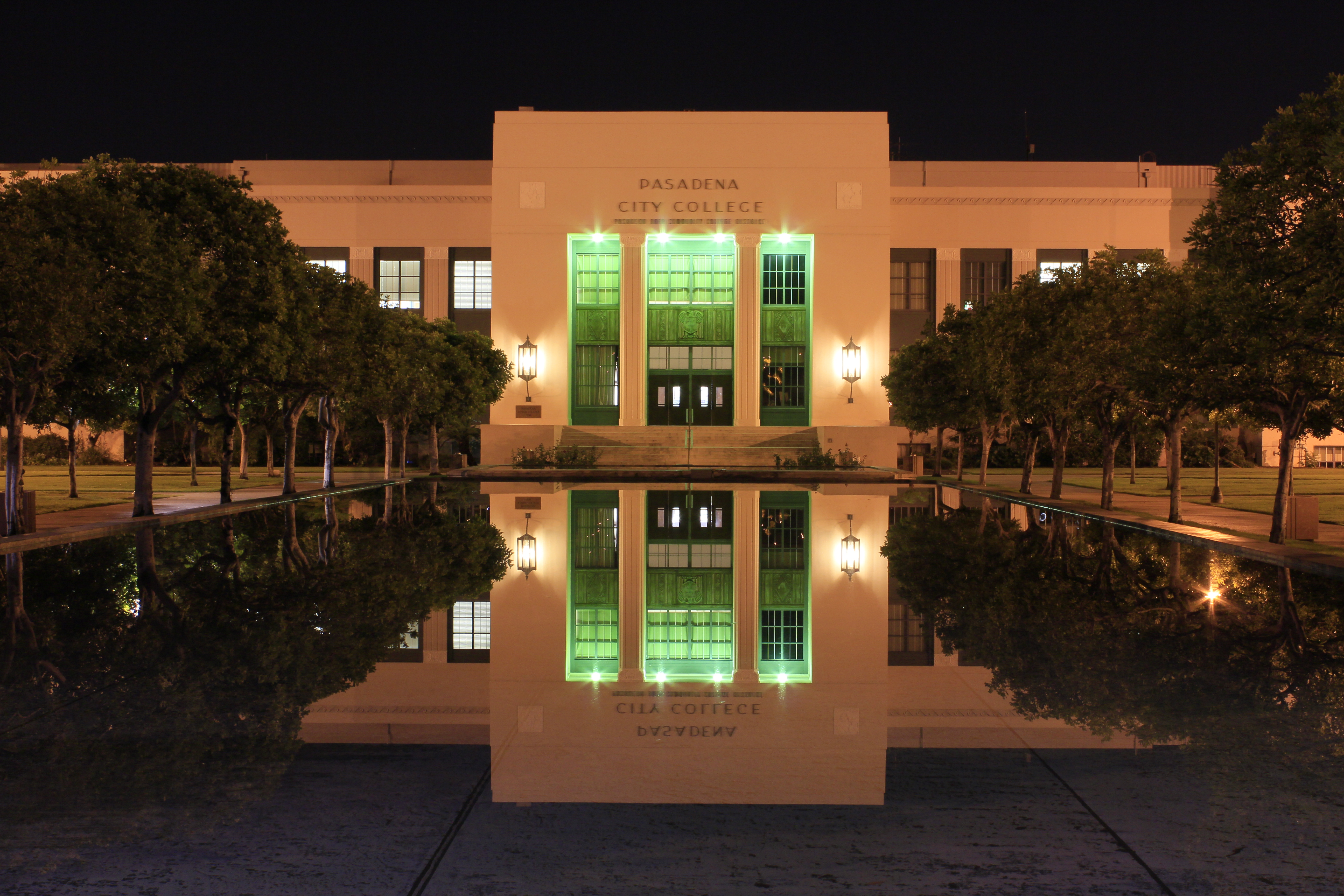 The C-building of Pasadena City College. This shot was taken on Colorado Blvd.